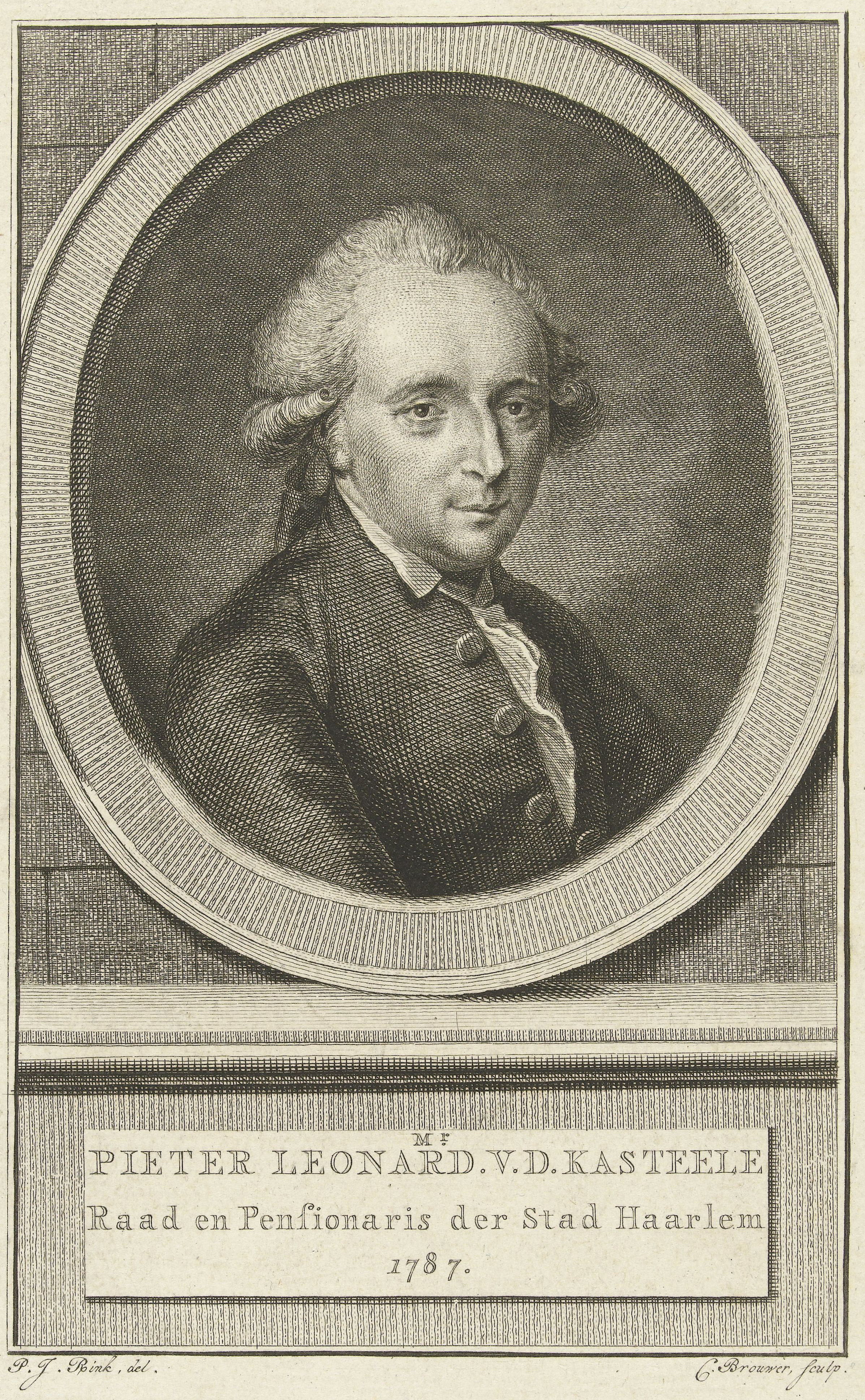 Portrait of Pieter Leonard van de Kasteele (1748-1810), Dutch politician, patriot and poet.